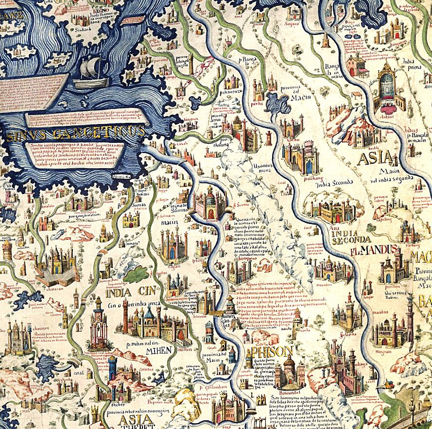 This detail from Fra Mauro's world map of the 1450s shows the city of Ayutthaya in its centre. Here, Ayutthaya is named "Scierno", a name derived from the Persian name of the city "Shar-I-Nau", meaning "New City". The map is orientated with south to the top. To the right of "Scierno", two cities in Burma can be recognised: "Pochang" (present day Bagan) and Ava (present day Inwa). This detail was taken from File:Fra Mauro World Map, c.1450.jpg